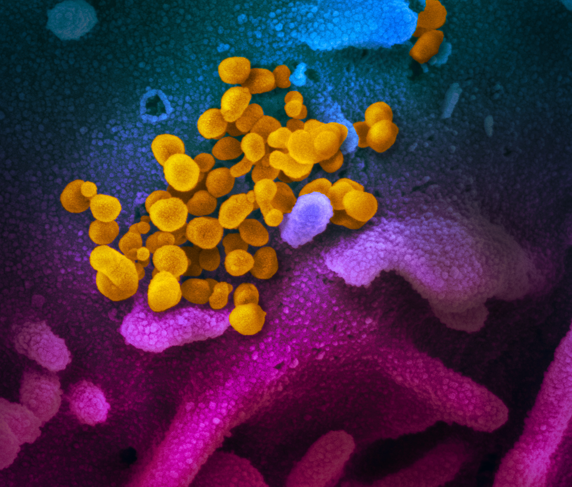 Novel Coronavirus SARS-CoV-2 This scanning electron microscope image shows SARS-CoV-2 (yellow)—also known as 2019-nCoV, the virus that causes COVID-19—isolated from a patient in the U.S., emerging from the surface of cells (blue/pink) cultured in the lab. Credit: NIAID-RML